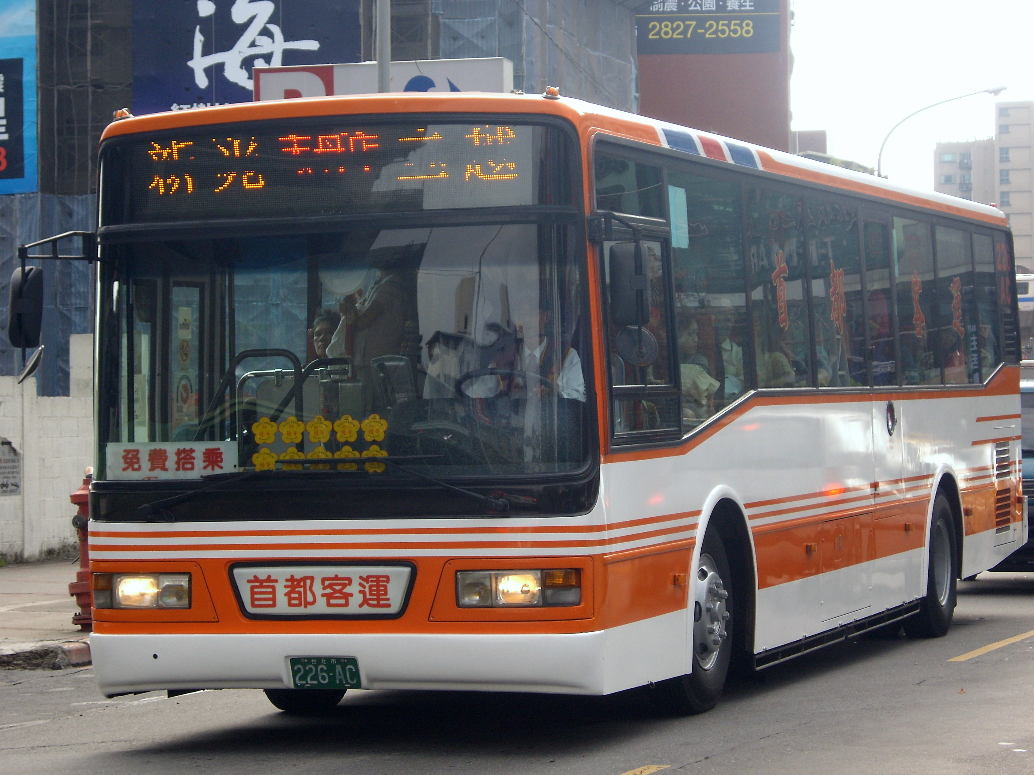 A "Shin Kong Mitsukoshi Tienmu Branch" shuttle bus by Capital Co. Ltd.